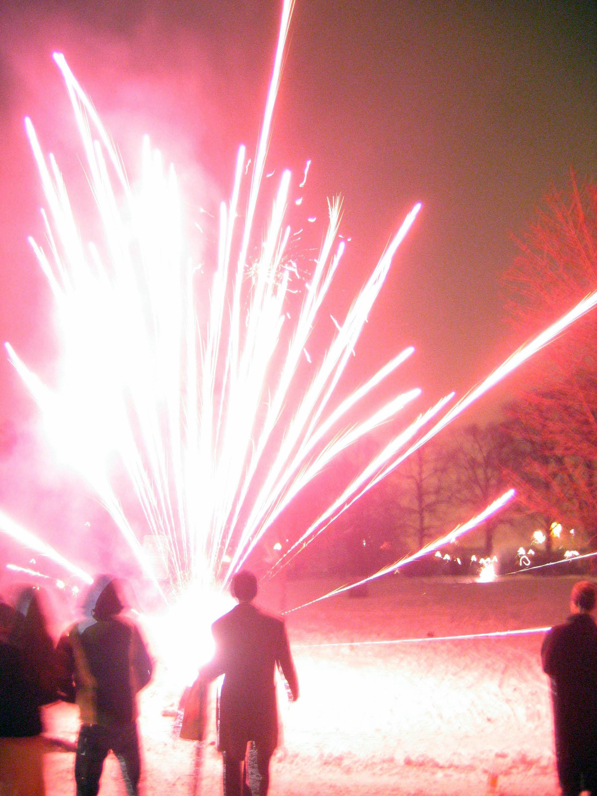 New year fireworks in Oslo, Norway.